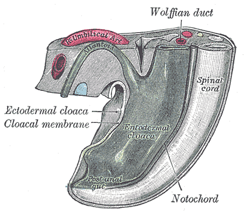 Tail end of human embryo from fifteen to eighteen days old. (From model by Keibel.)